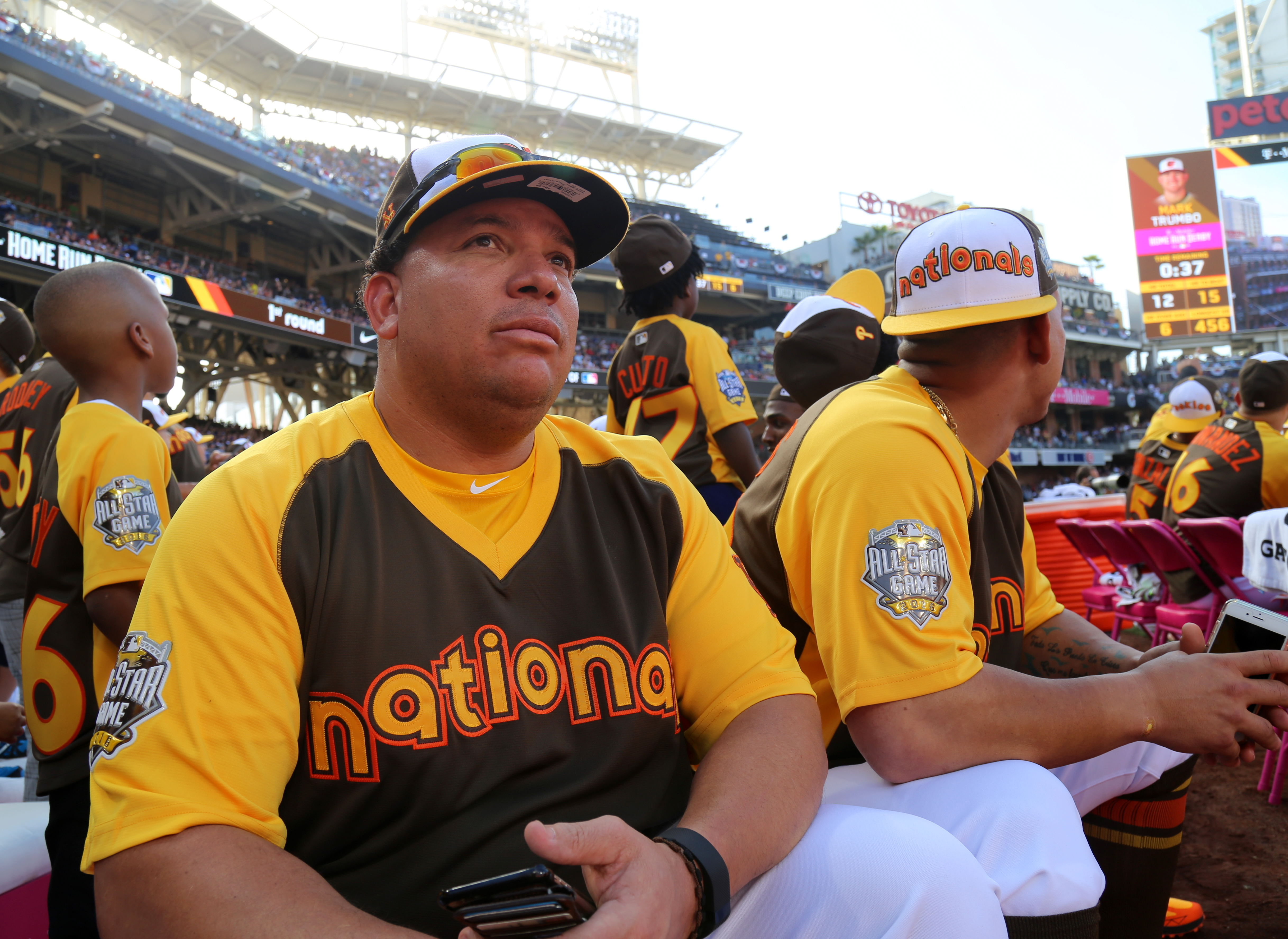 Bartolo Colon looks on during the 2016 T-Mobile #HRDerby.